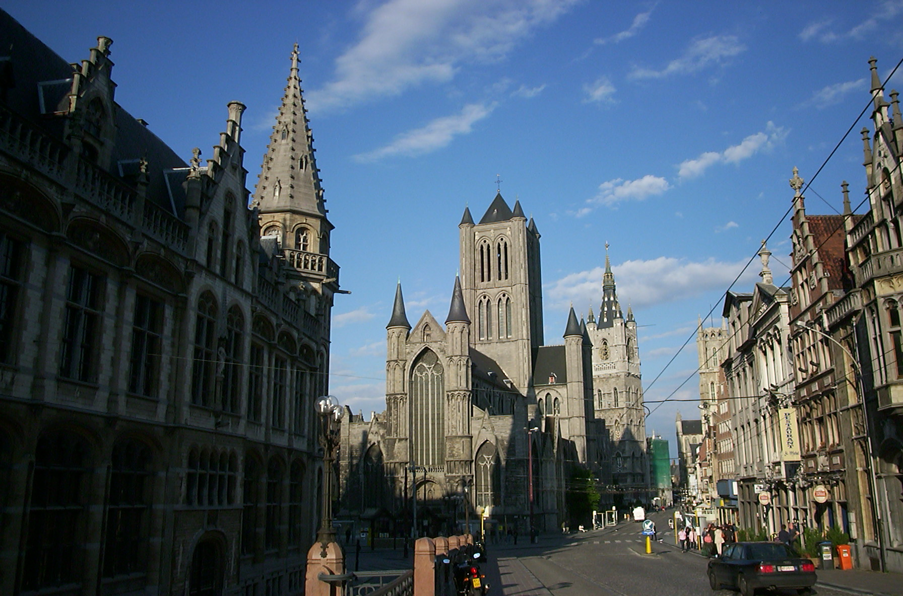 Ghent, Sint-Niklaaskerk. The picture was taken from Sint-Michielsbrug, a vantage point from which the three towers can be seen: Sint-Niklaas, Belfort (a bit offset to the right), Sint-Baafs (almost behind the row of houses on the right).